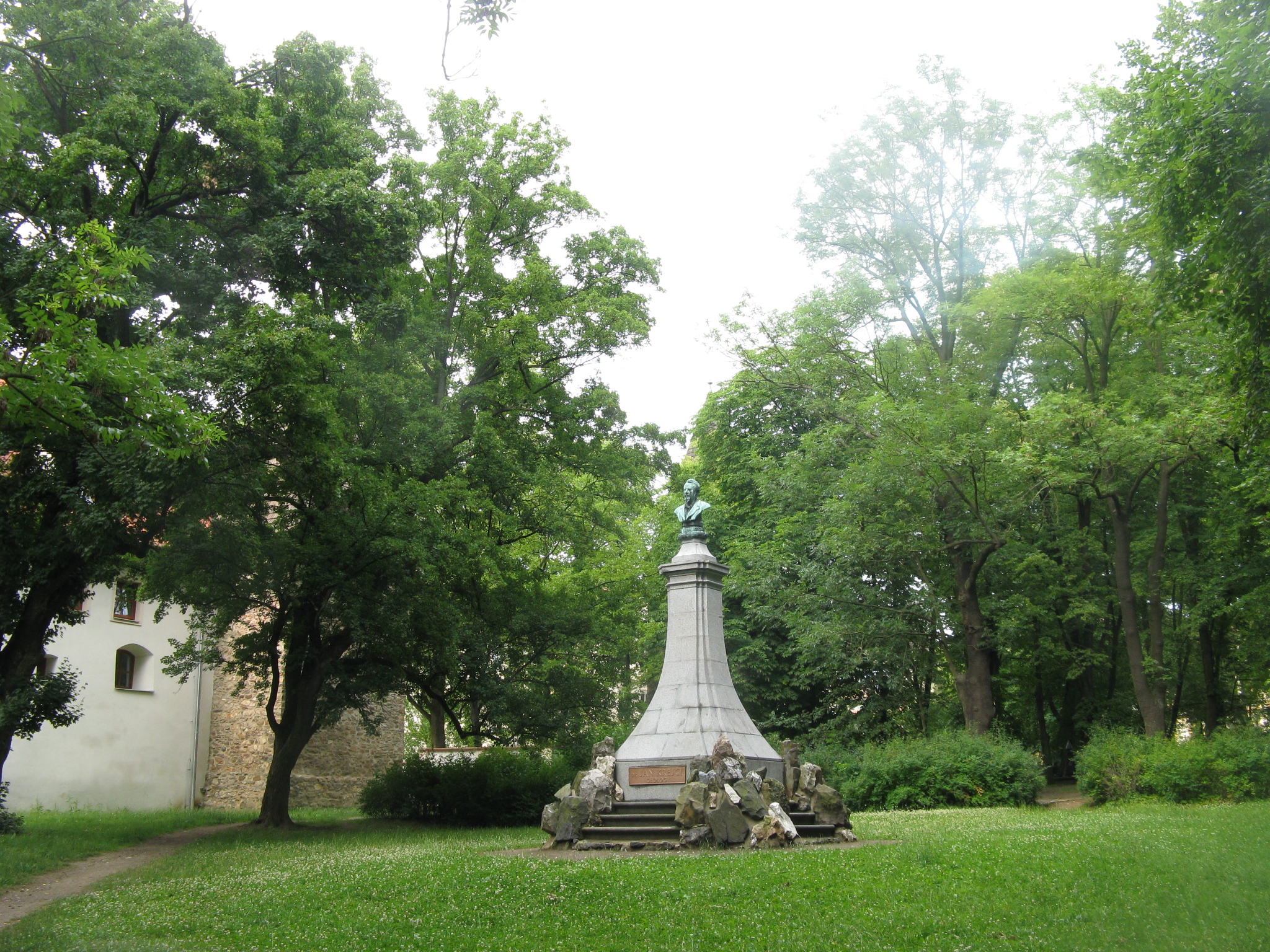 Klatovy, park at the walls, monument for Jan Krejčí